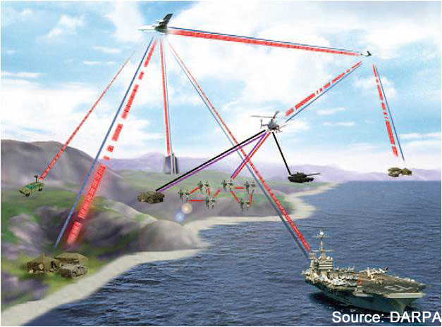 DARPA ORCA Offical Concept Art created circa 2008